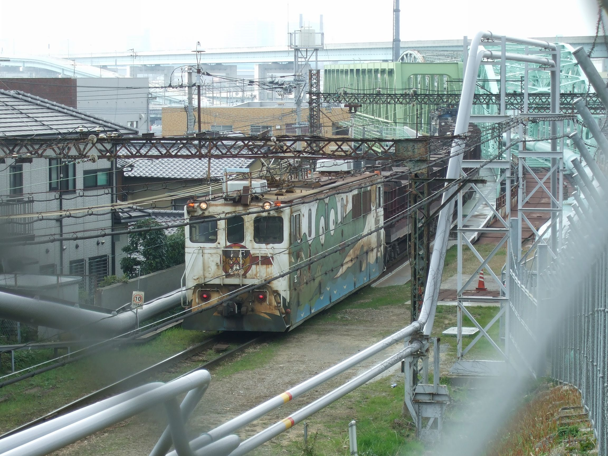 Nippon Steel Yawata Railway "Kurogane Line", in Kitakyushu City, Fukuoka, Japan.